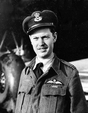 Portrait of 407729 Flight Lieutenant D. J. Shannon DFC of No. 617 Squadron RAF just before the famous Dam Busters raid against targets in the Ruhr Valley, Germany.